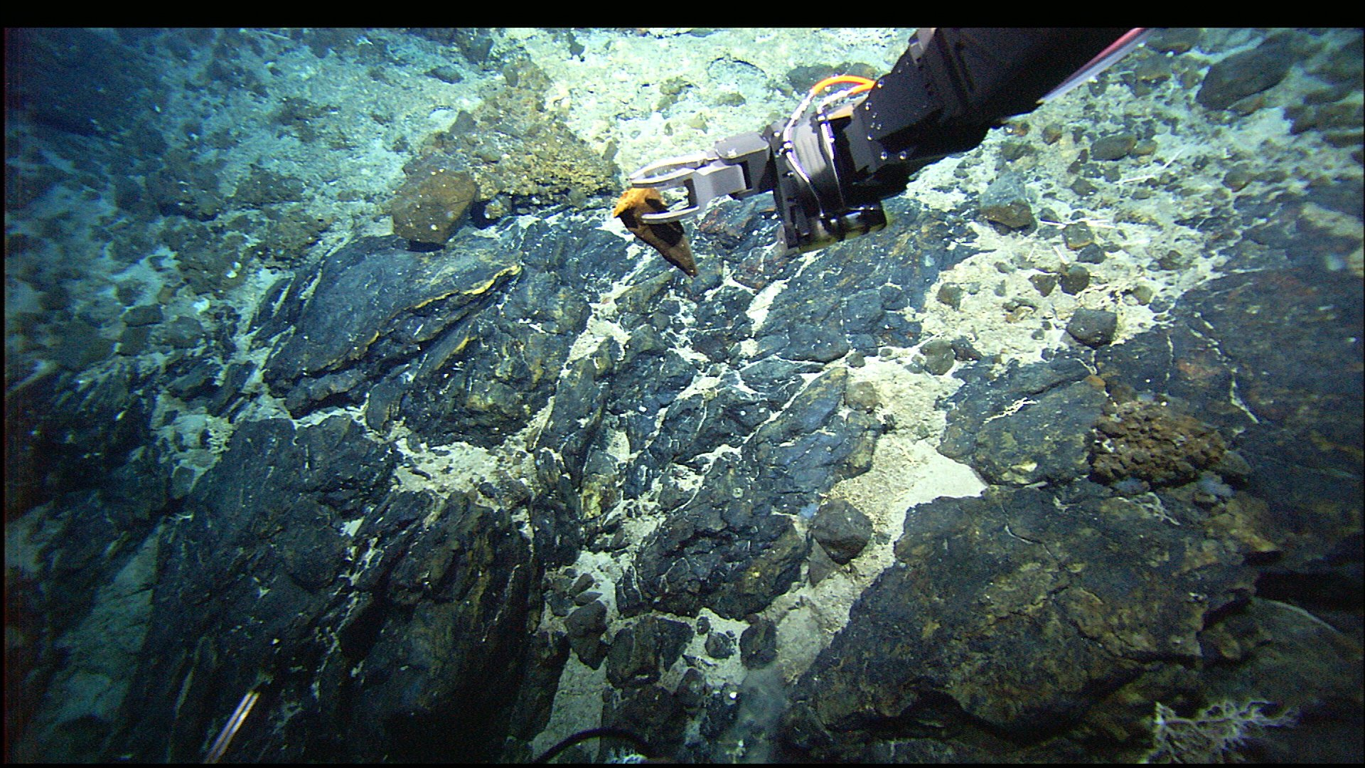 The manipulator arm of the Hercules ROV sampling rocks in the vicinity of the Atlantis Fracture Zone. Atlantic Ocean, Mid-Atlantic Ridge.